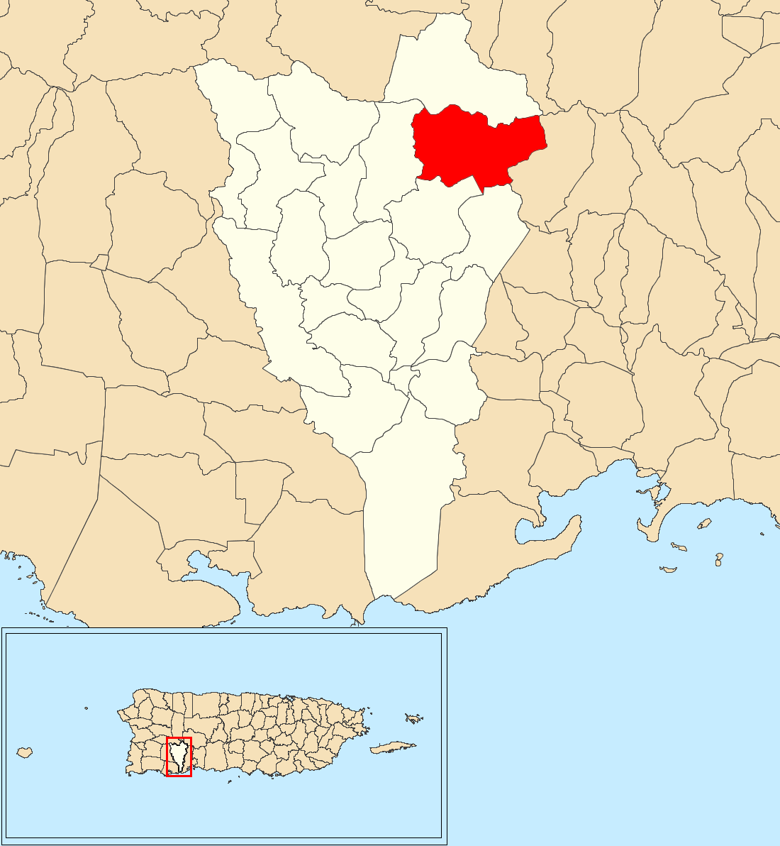 Aguas Blancas, Yauco, Puerto Rico locator map